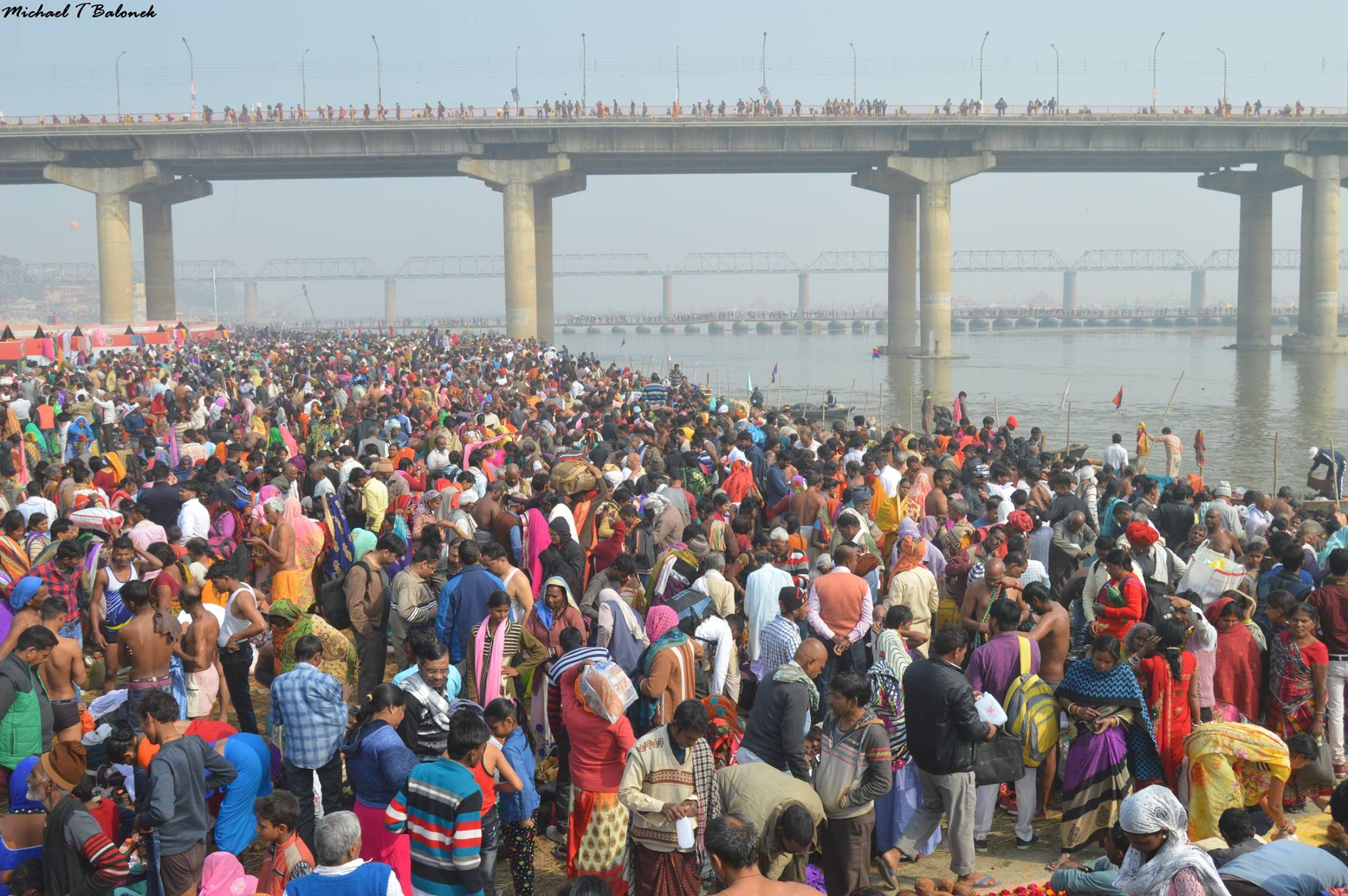 Large crowd at the 2019 Kumbh Mela on Mauni Amavasya This photo has been taken in the country: India